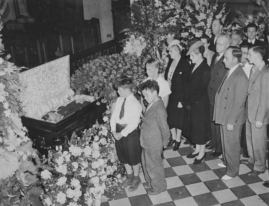 American baseball player, Lou Gehrig, lying in state at Christ Episcopal Church in the Bronx during his funeral.